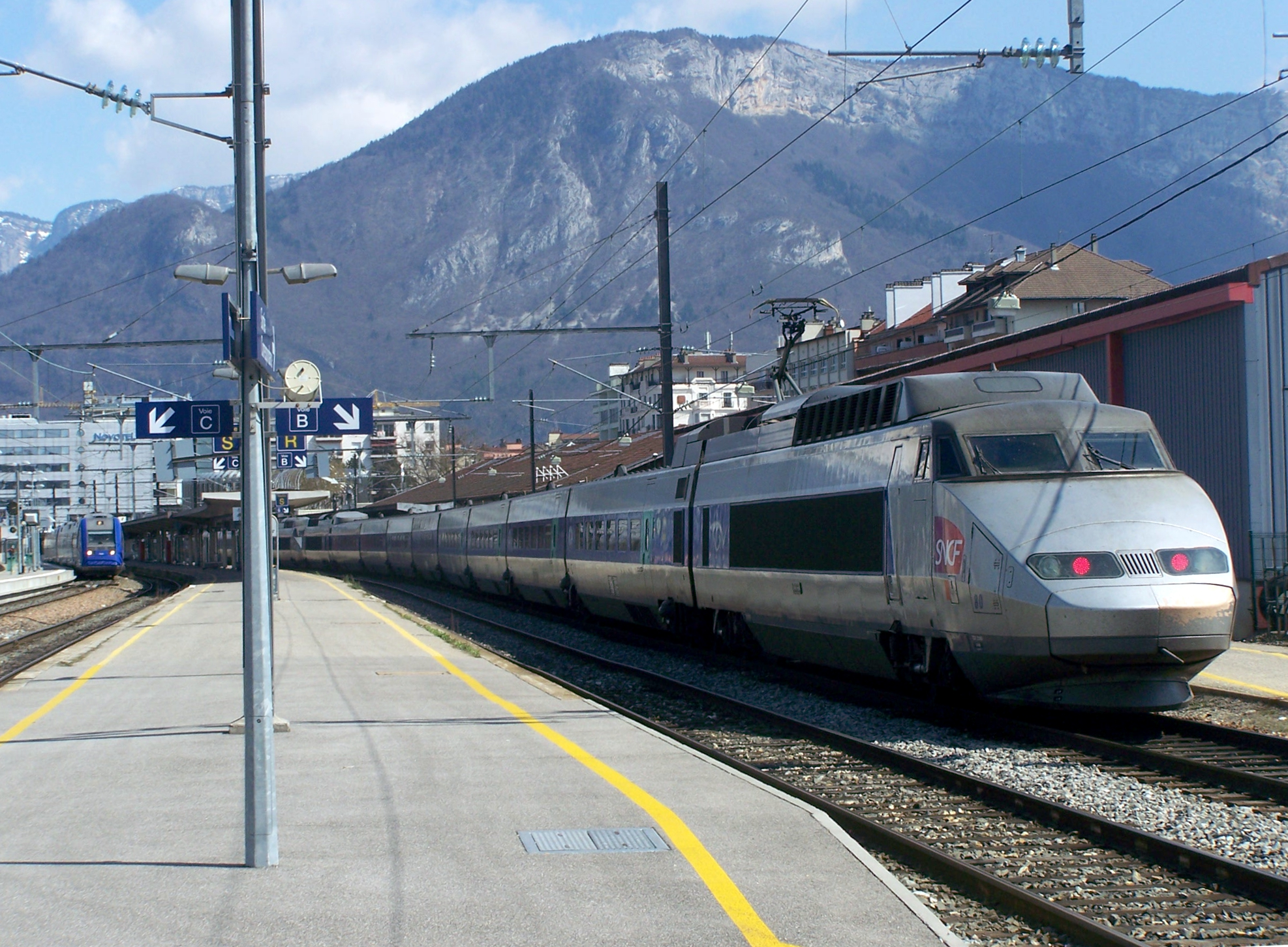 Platforms and tracks of Annecy railway station in Haute-Savoie, France. Can be seen a TGV (right) and a class X 72500.